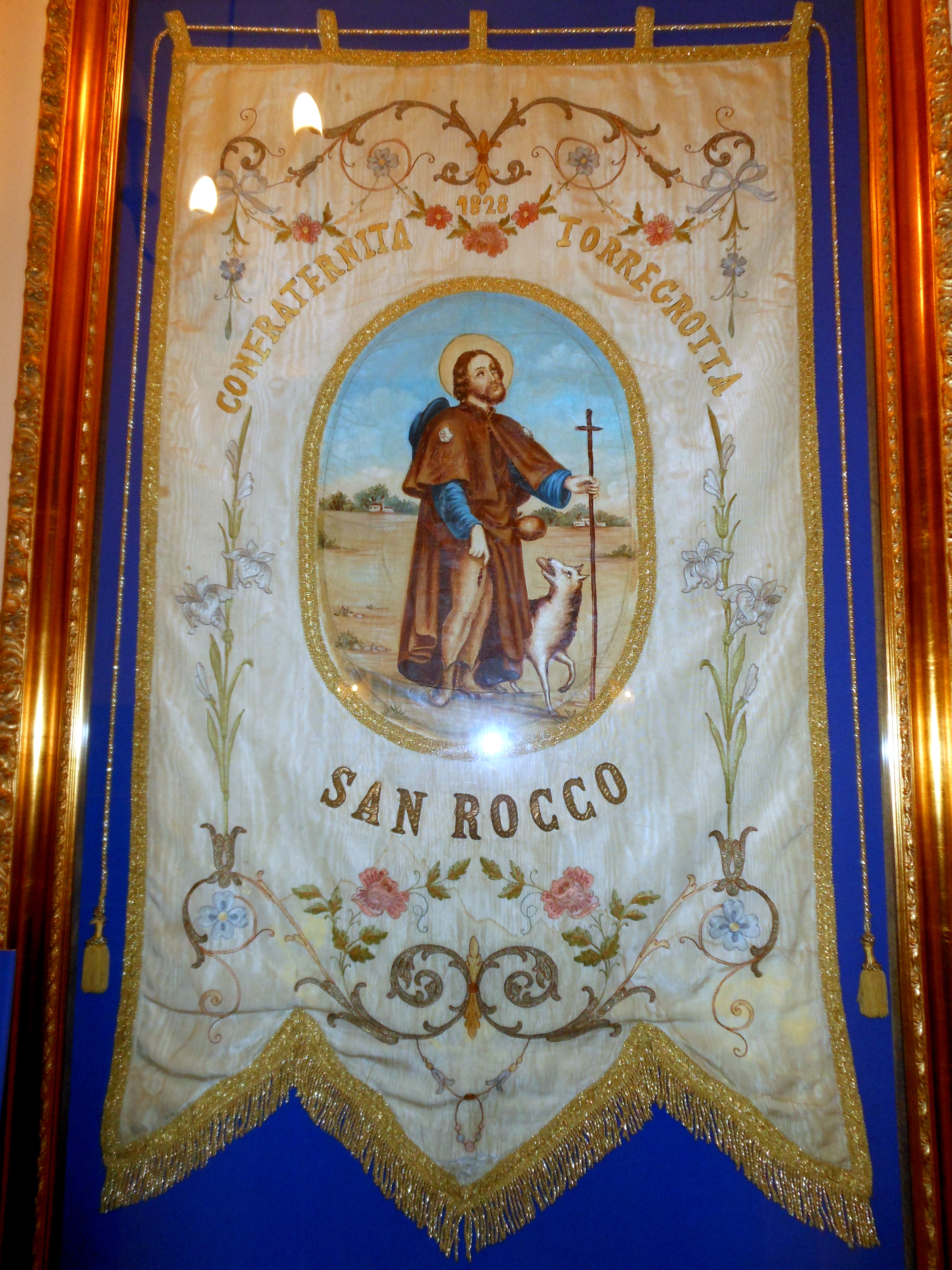 Ancient vexillum of the Saint Roch Confraternity guarded in St. Paulinus church in Torregrotta, Sicily, Italy.